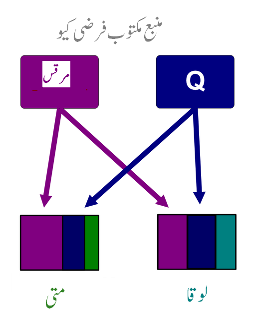 The Two-source Hypothesis to the synoptic problem